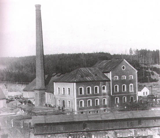 Ferdinand Mine, Babice u Rosic, Czech Republic